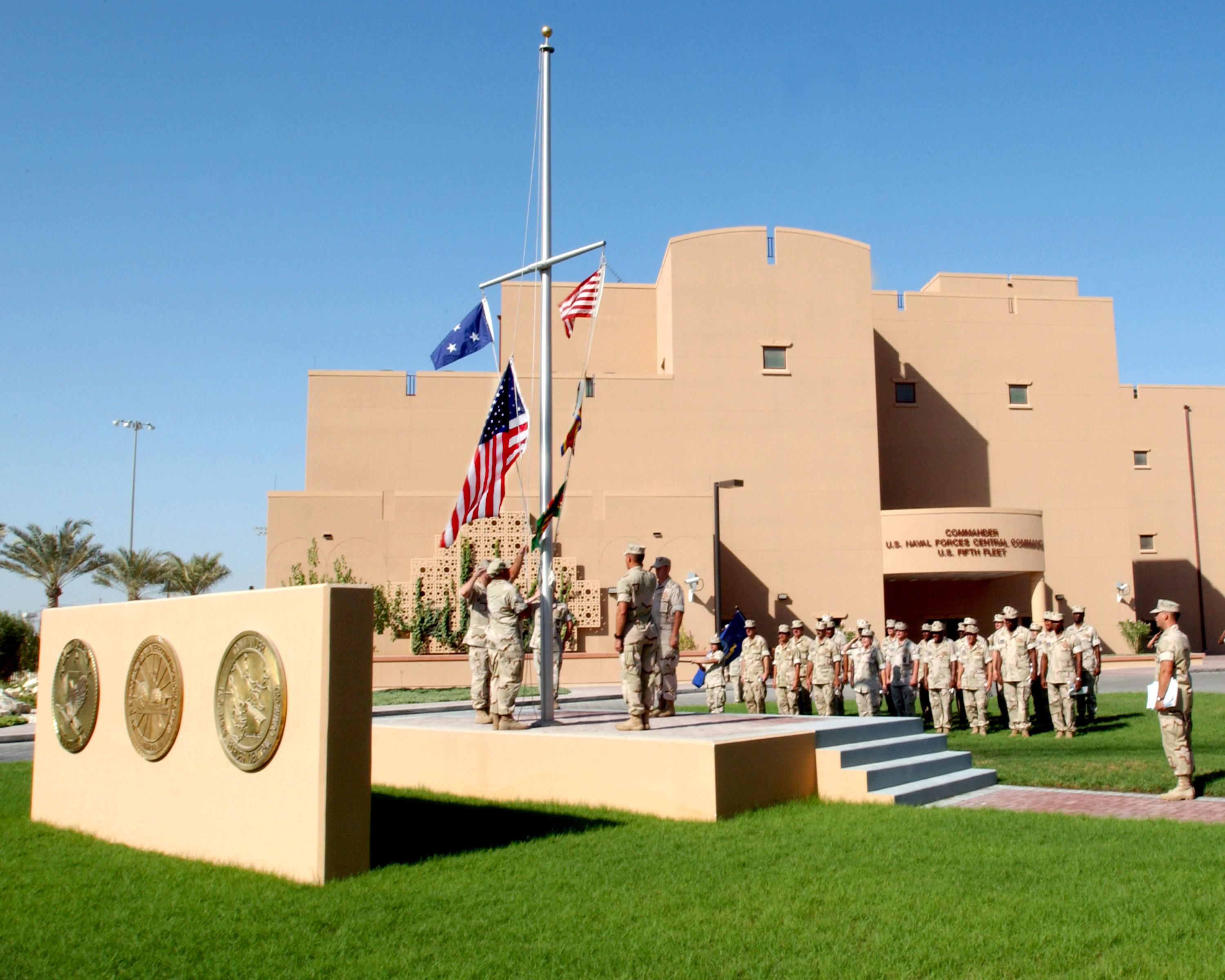 Manama, Bahrain - Chief Petty Officer (CPO) selectees assigned to Naval Support Activity (NSA) Bahrain and tenant commands, hold a flag raising ceremony during morning colors. There were 55, 1st class petty officers selected to advance to the rank of CPO in Bahrain. U.S. Navy photo by Photographer’s Mate 2nd Class Phillip A. Nickerson Jr. (RELEASED)